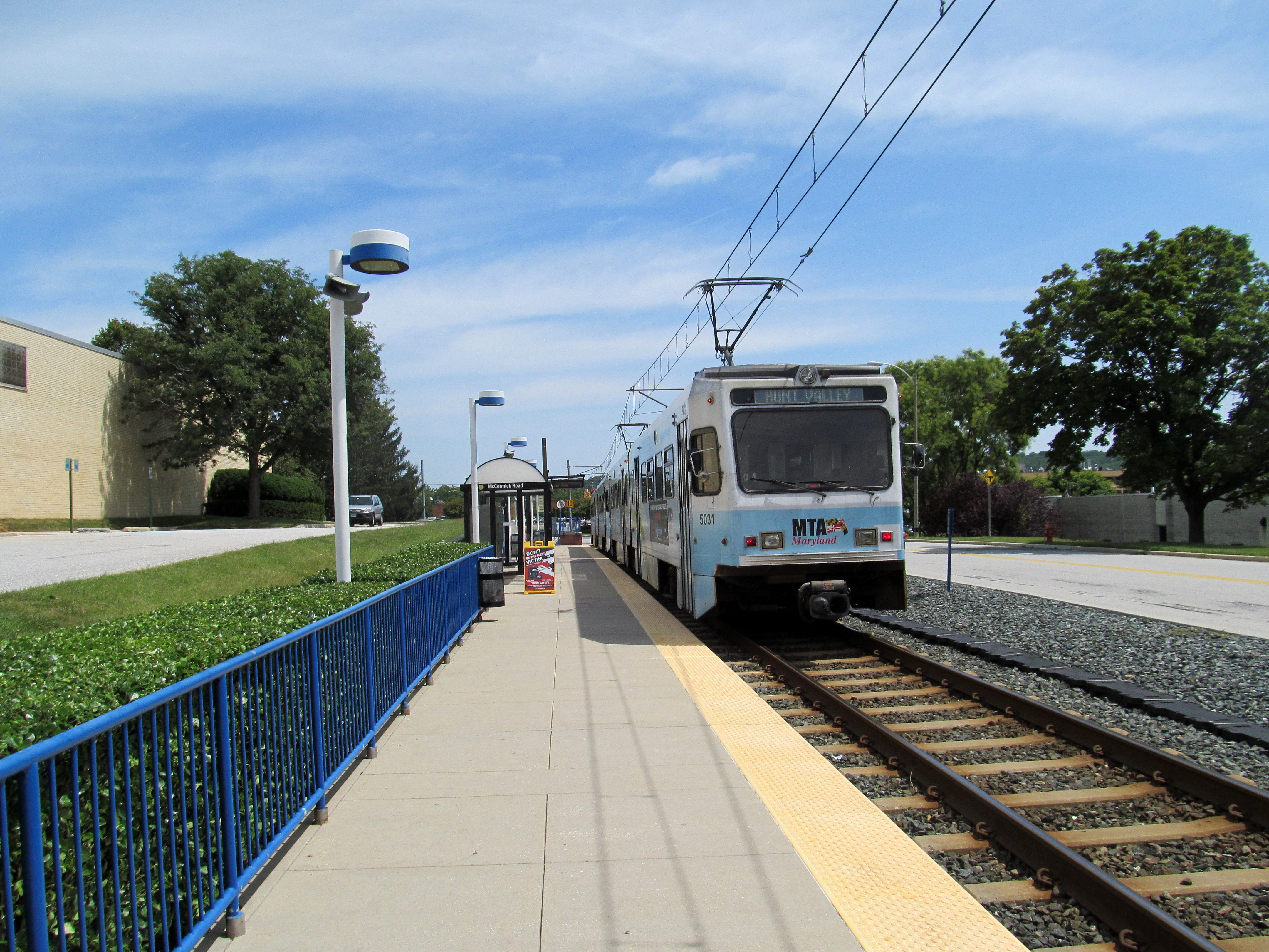 A northbound train at McCormick Road station in August 2014